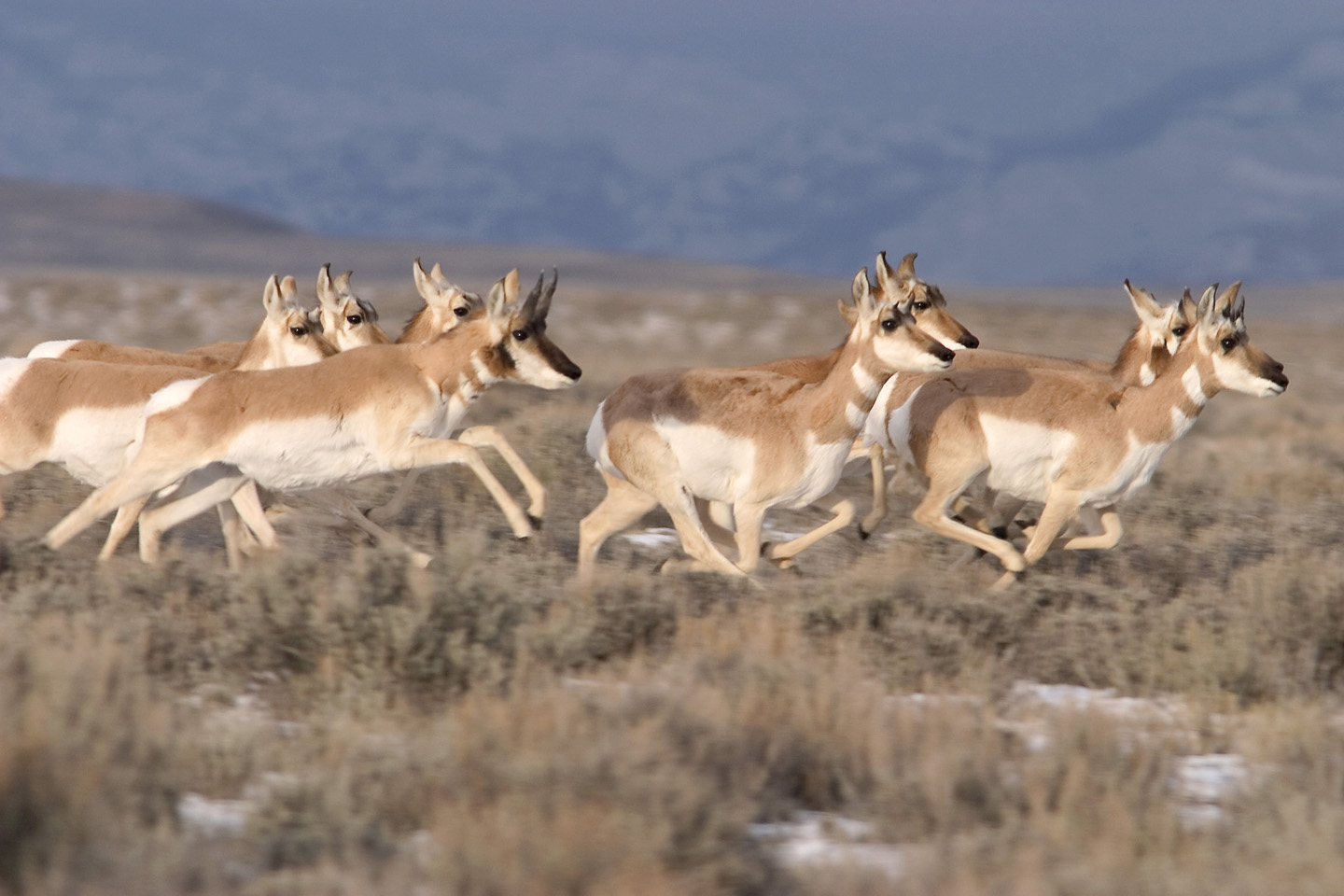 Pronghorn antelope on the move along the migration route.